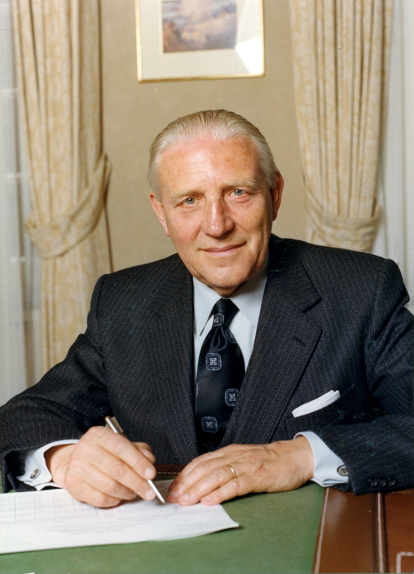 Pierre Werner, Luxembourg Prime Minister from 1959 to 1974 and from 1979 to 1984.